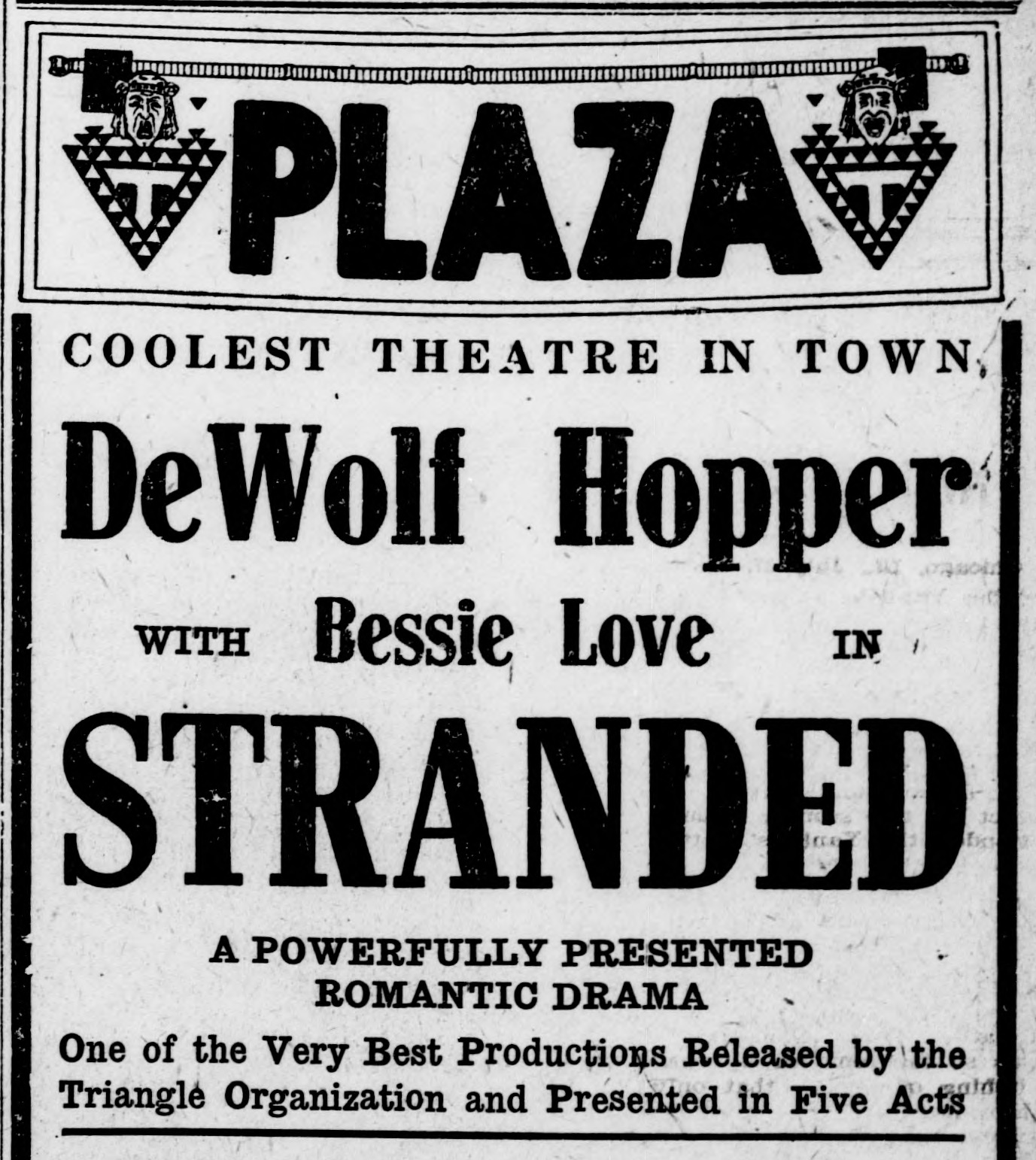 Stranded (1916) is a silent film drama produced by Fine Arts Film Company and distributed by Triangle Film Corporation. This is a newspaper advert.